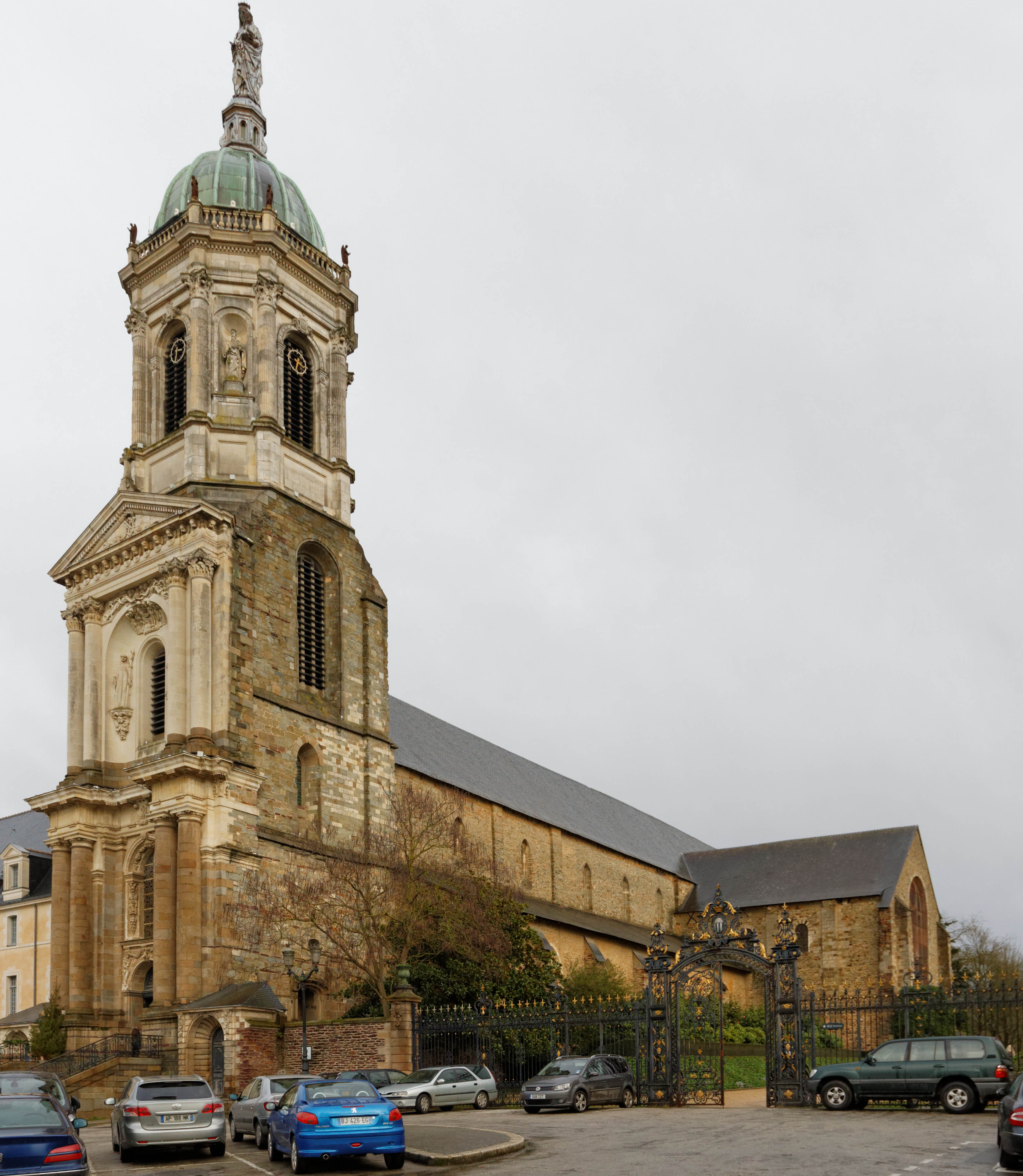 Rennes